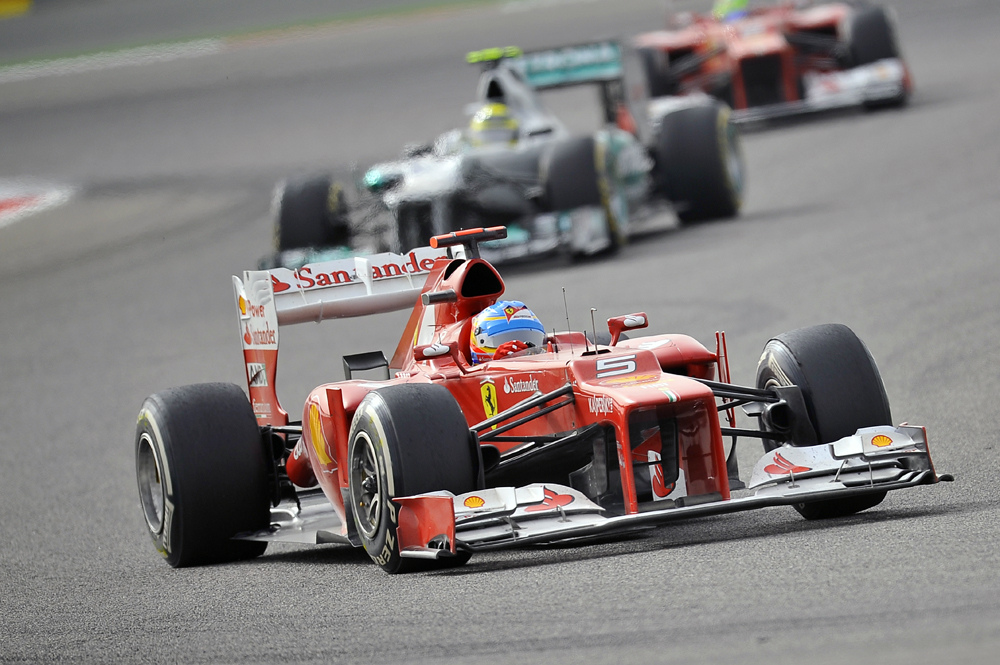 Fernando Alonso at the 2012 Bahrain Grand Prix.